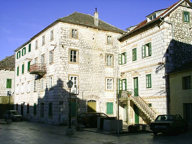 Town of Imotski, Croatia